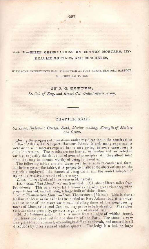 Title page image of J.G. Totten's ( General Joseph Gilbert Totten ) 1838 publication Brief Observations on Common Mortars, Hydraulic Mortars, and Concretes.